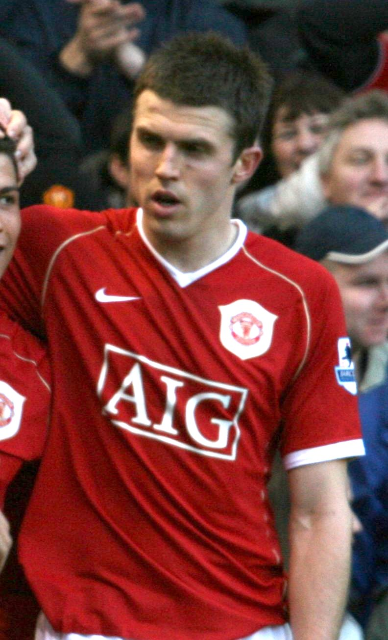 English footballer Michael Carrick